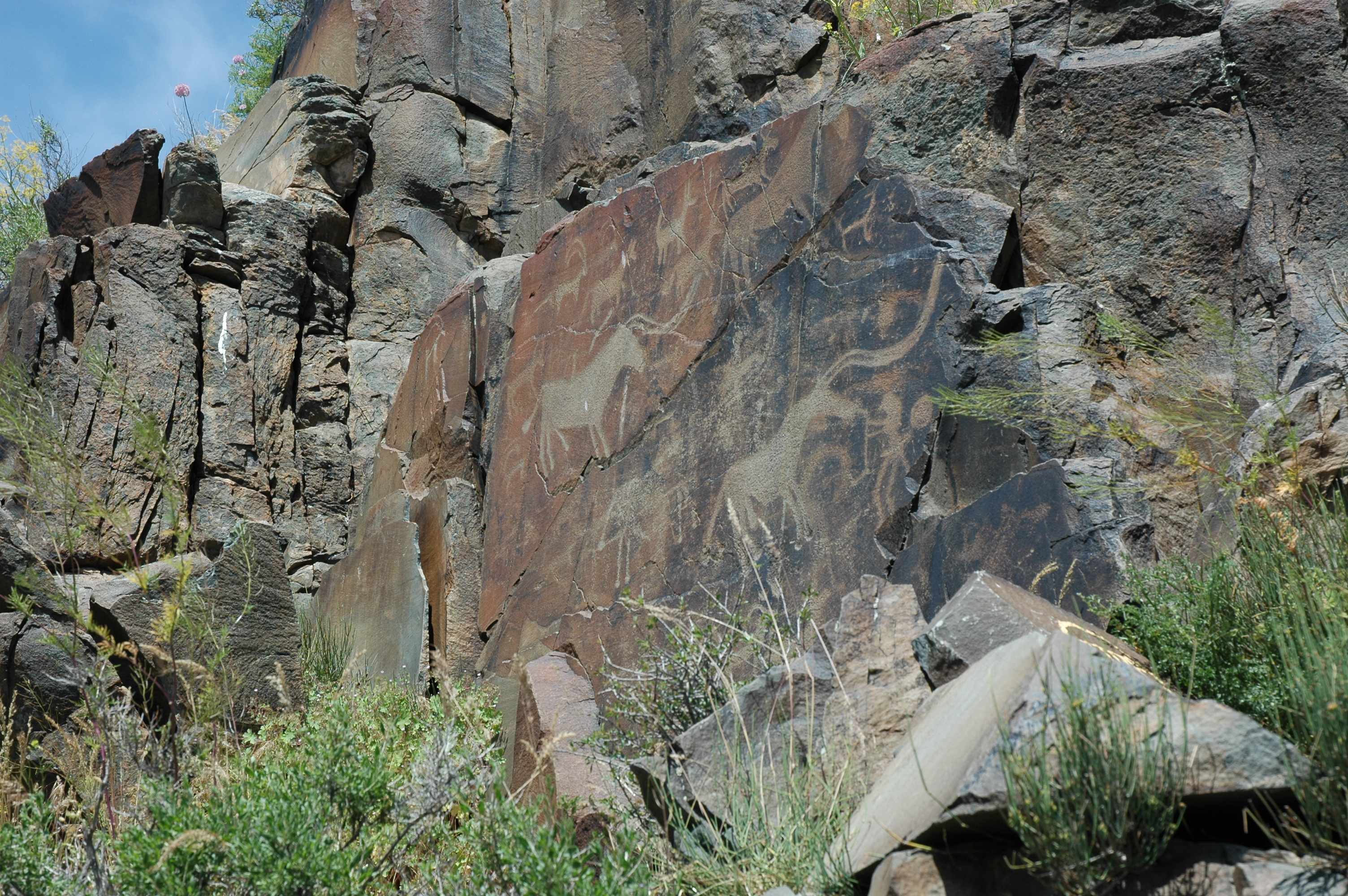 Petroglyphs within the Archaeological Landscape of Tamgaly